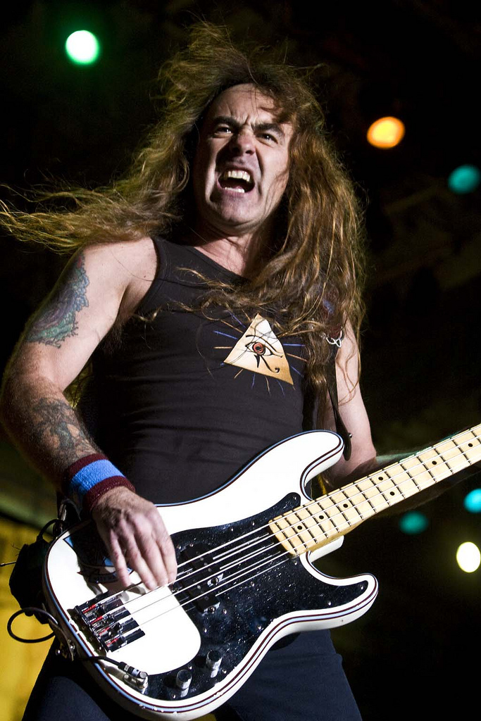 Steve Harris